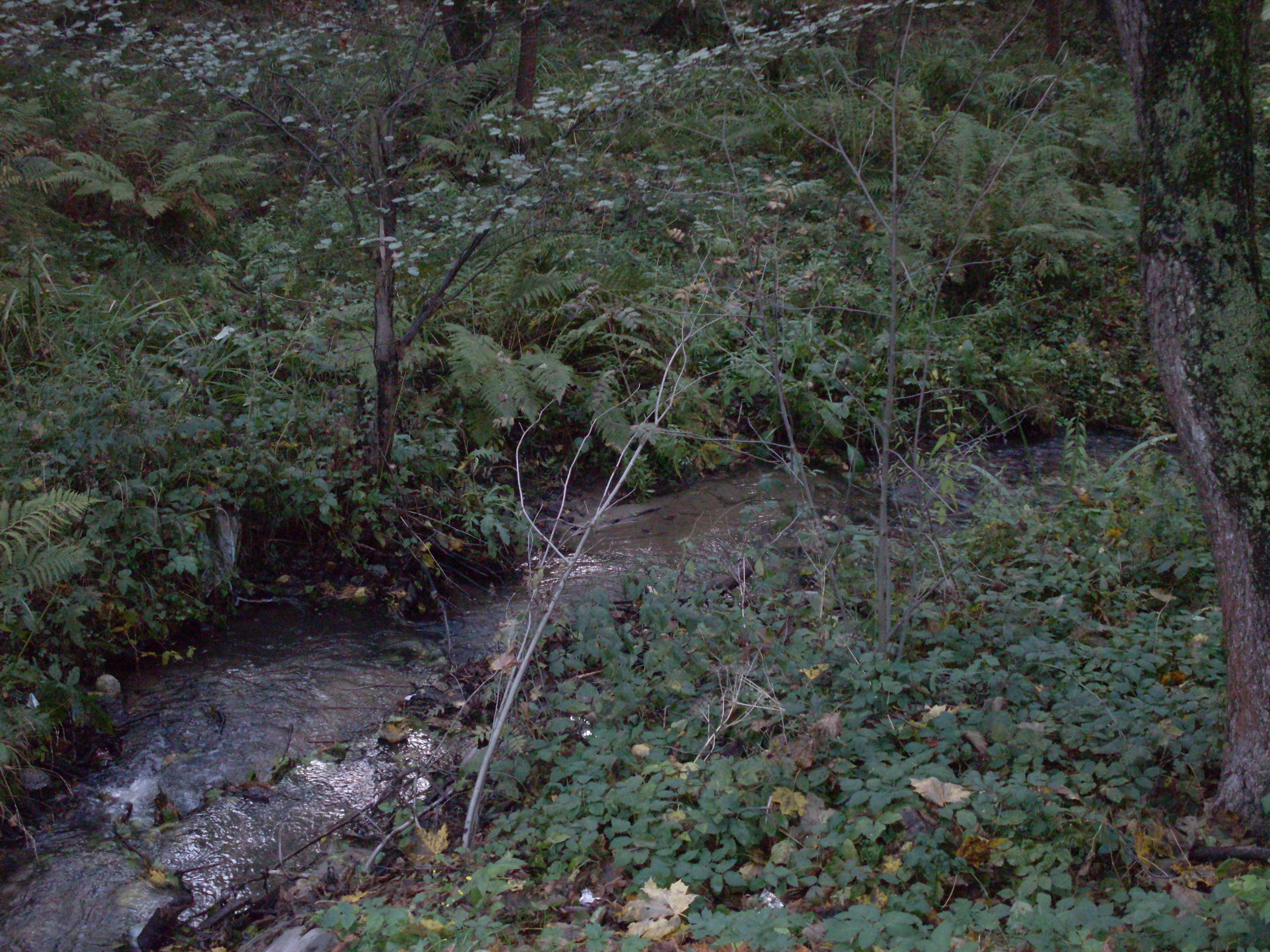 Potok Olszówka w lesie (Tenczynek).